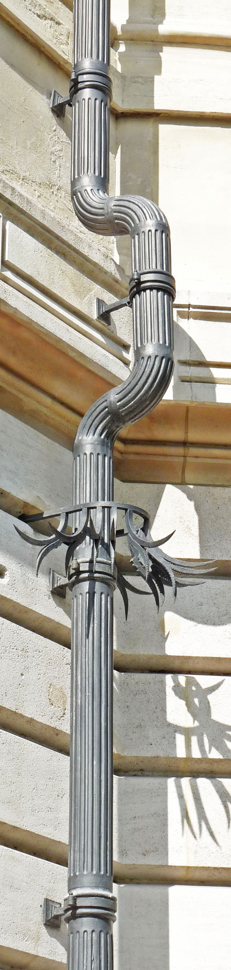 Copper pipe downspout.